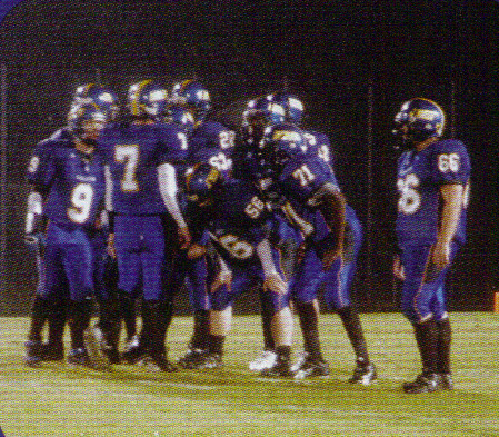 PHS football team huddle